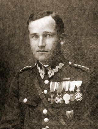 Jan Leśniak (1898-1976) - Colonel of the Polish Army. Here in rank of Captain